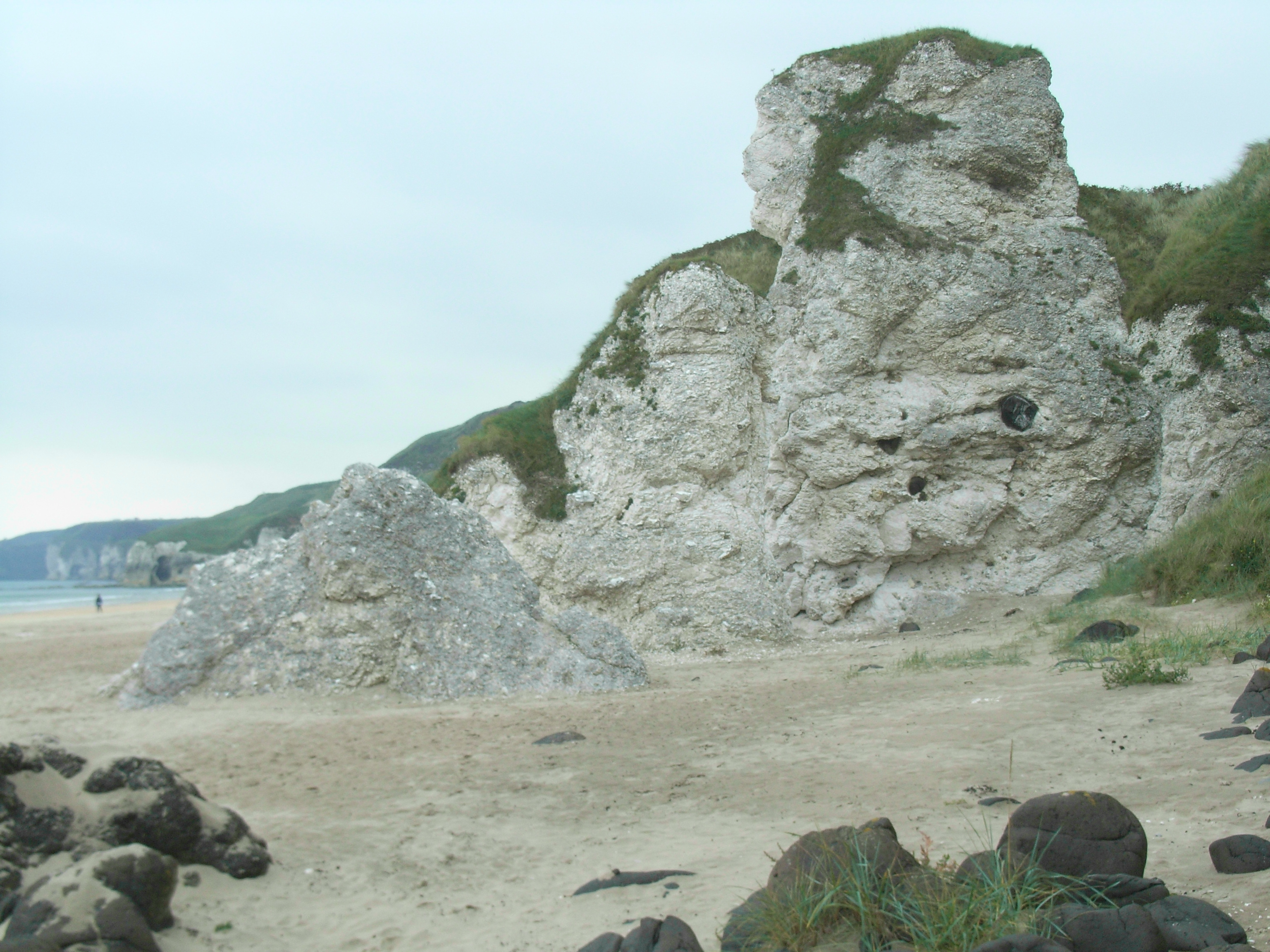 As file